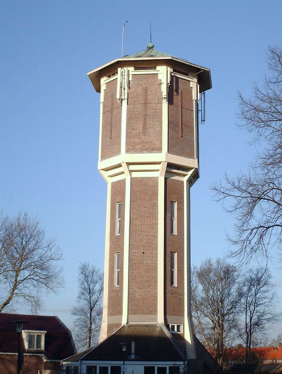 Watertoren in Joure